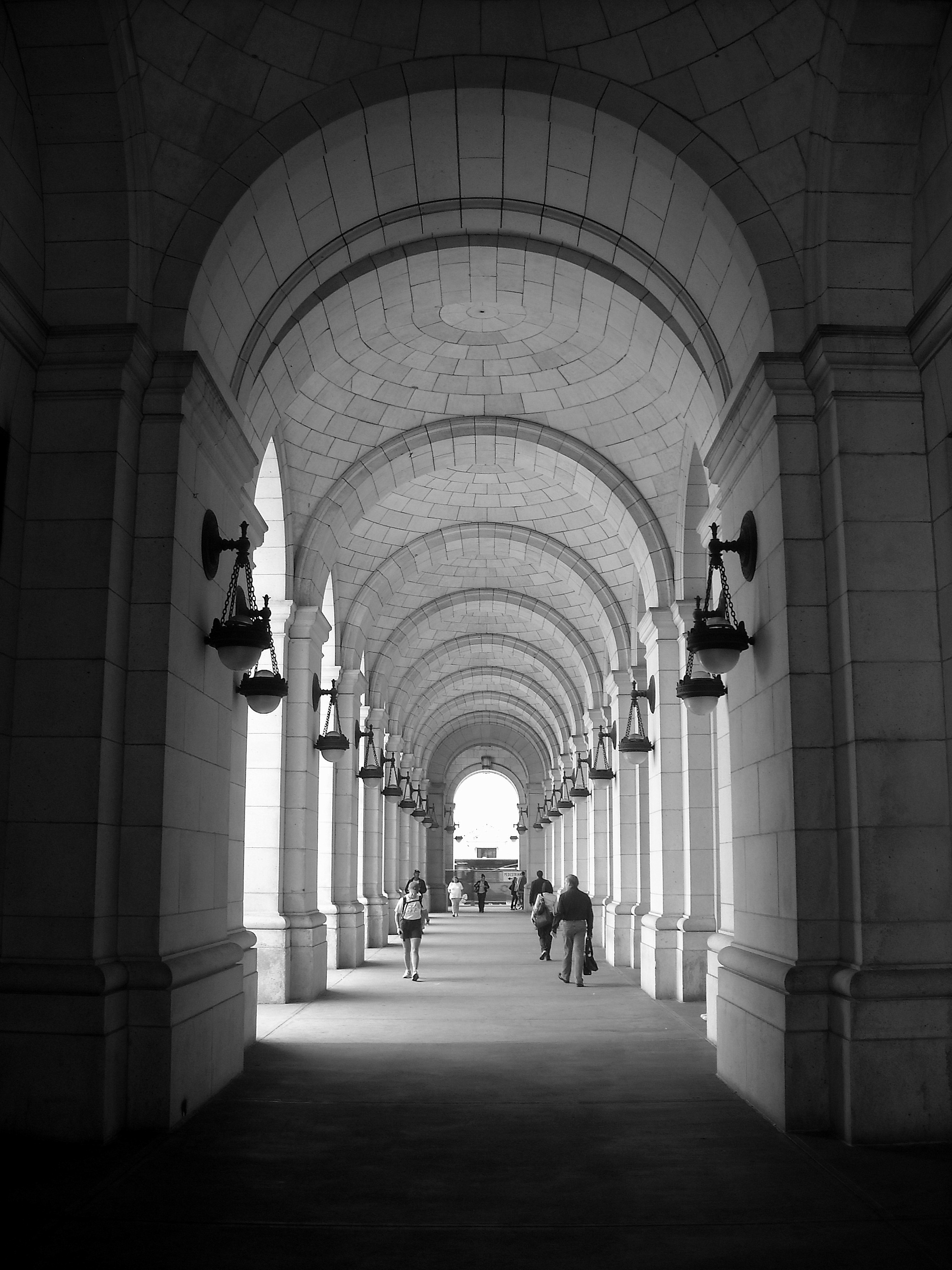 Looking east down the loggia of Union Station in Washington The building is listed on the National Register of Historic Places.